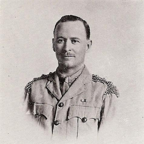 A photograph of Lieutenant Colonel Harold Richard Patrick Dickson (4 February 1881 – 14 June 1959), who was a British colonial administrator in the Middle East from the 1920s until the 1940s, and author of several books on Kuwait.